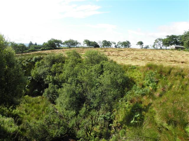 View of Altachullion Lower townland, Parish of Corlough, County Cavan, Ireland. Looking north from the R200 road.